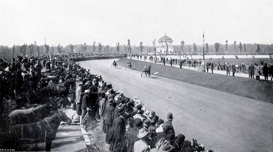 Garfield Park bicycle and race track, 1896